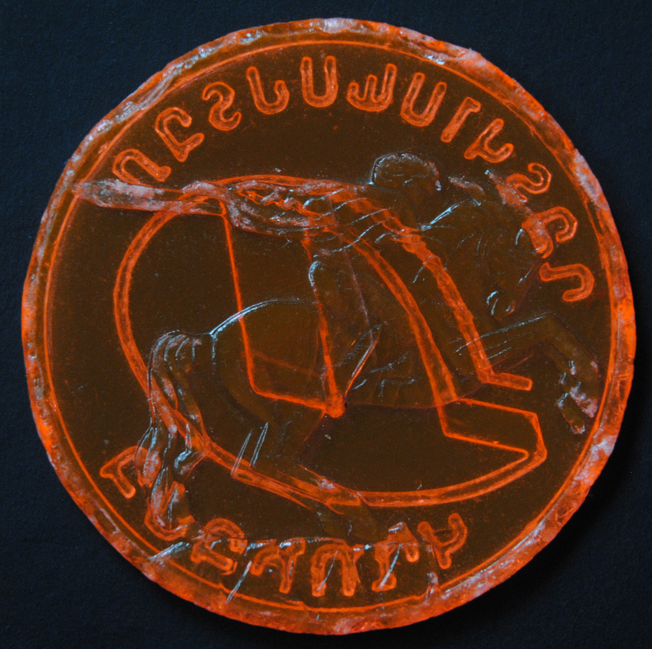 Yerevan metro token, issued May 2018.